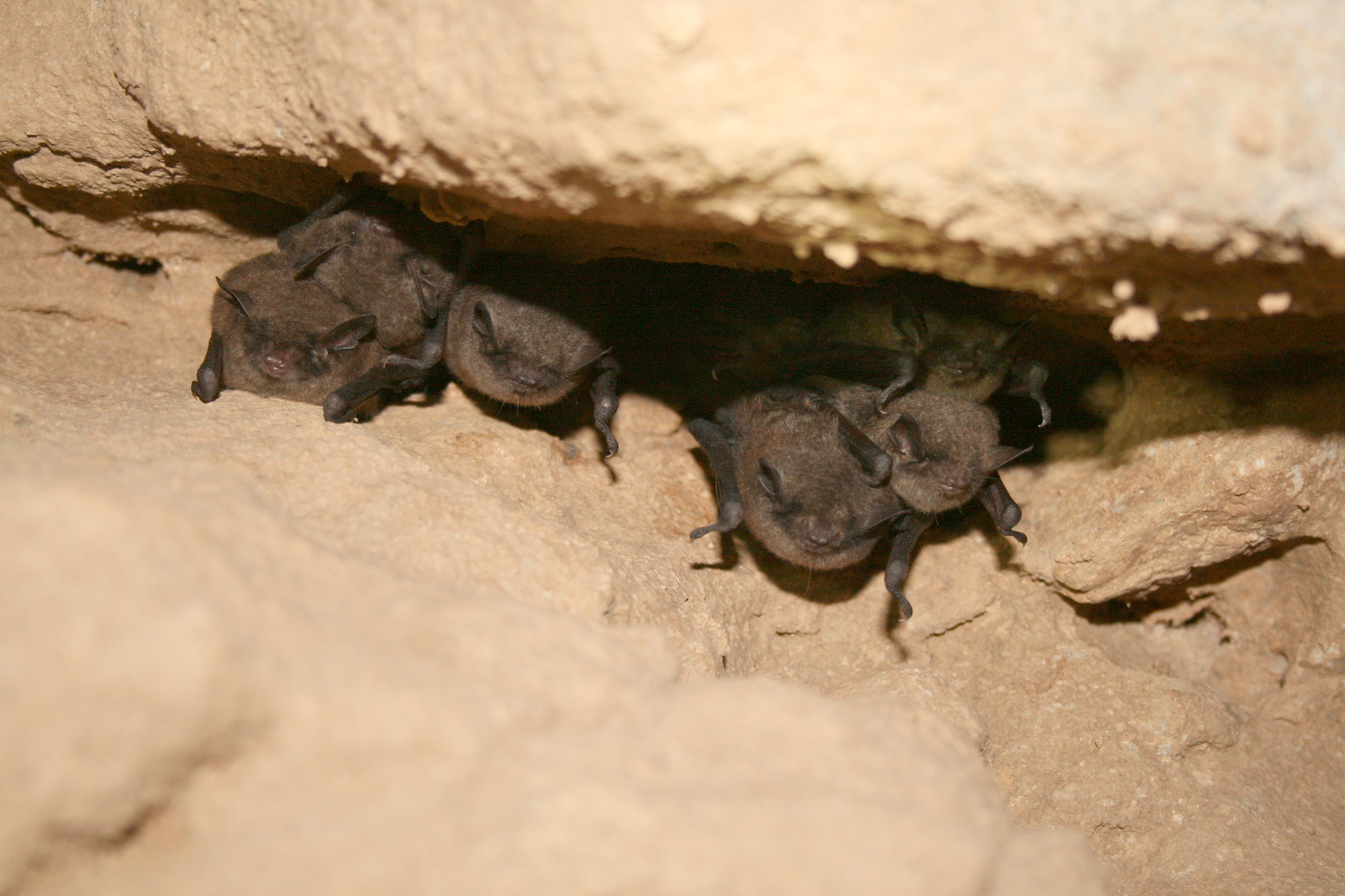 Hibernating Indiana bats (Myotis sodalis) credit USFWS/Ann Froschauer